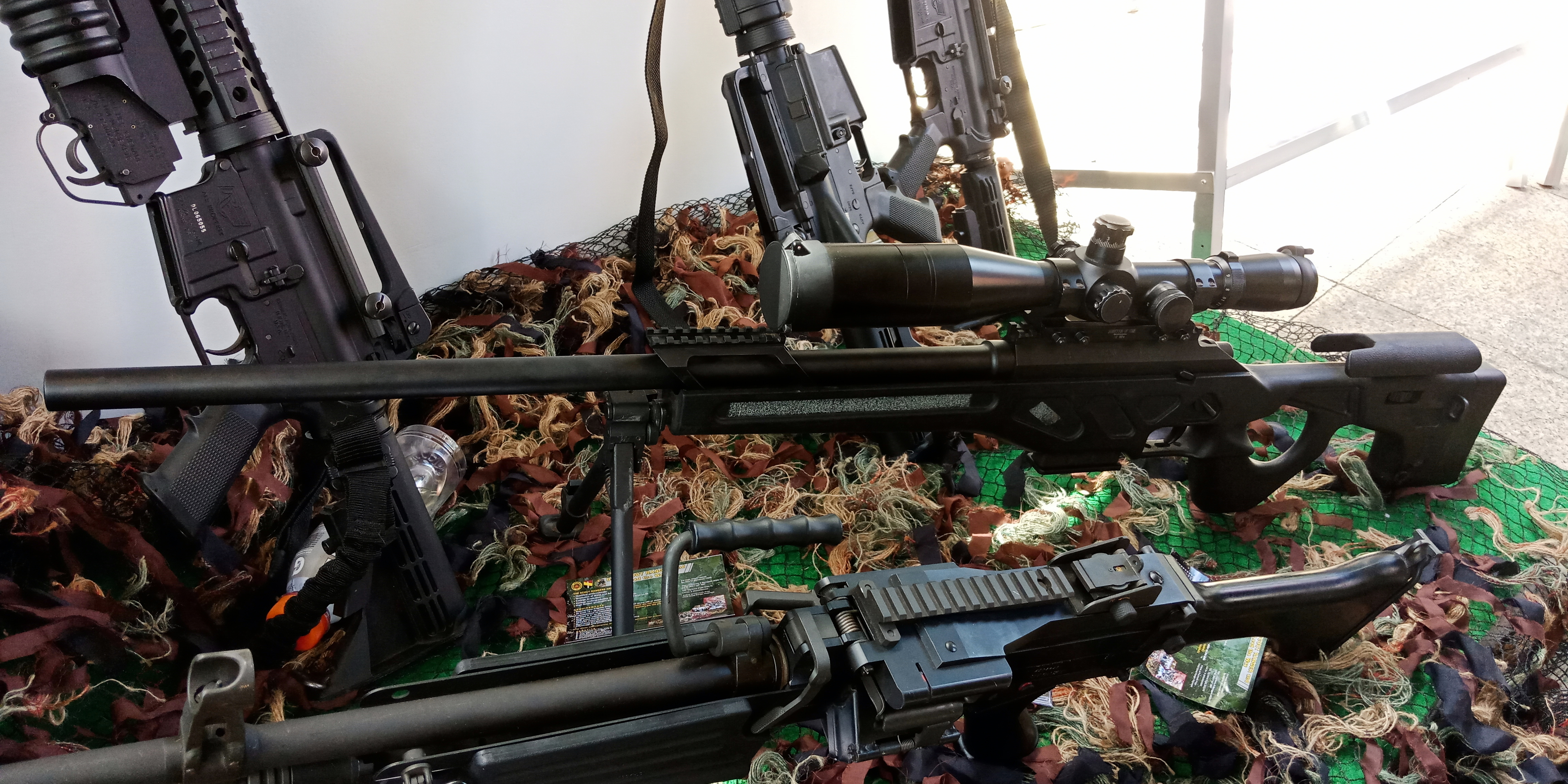 One of the Norinco NSG-1 / CS-LR4 Sniper Rifles that China donated to the Philippine armed forces last June 2017. Photo taken during the Philippine Army's 121st Anniversary Exhibit at the Bonifacio High Street Activity Center.